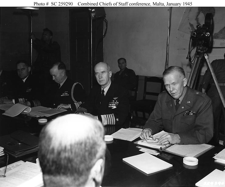 British and American Chiefs of Staff meet at Montgomery House, Malta, on 31 July 1945. This view shows the U.S. side of the table, with those present including (from right to left): General of the Army George C. Marshall Fleet Admiral Ernest J. King Vice Admiral Charles M. Cooke Rear Admiral Lynde D. McCormick